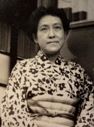 施照子(Si Teruko), with former name as 清水照子(Shimizu Teruko), was a humanist who run the 愛愛寮 to help the poor in Taipei